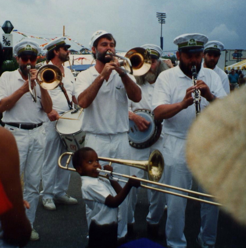 New Orleans Jazz & Heritiage Festival: "Carlsberg Brass Band" from Denmark with young "Trombone Shorty" Troy Andrews on trombone.